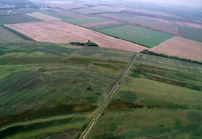 Kölked, Hungary, aerialphotography